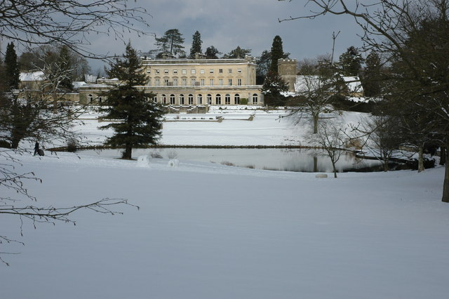 Cowley Manor Cowley Manor is now a 5 star hotel This impressive country house was almost entirely rebuilt in 1855-7 for James Hutchinson, a london Stockbroker. The design was by George Stevenson Clarke who built the new house on the site of an earlier 1695 house of Henry Brett. St Mary's church, Cowley, is in the grounds of Cowley Manor and can be seen on the right.